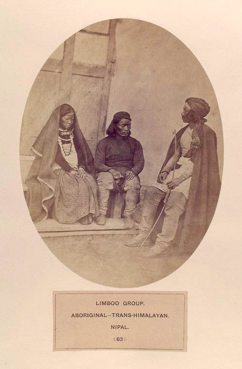 This image is from the book, The People of India, a series of photographic illustrations, with descriptive letterpress, of the races and tribes of Hindustan, originally prepared under the authority of the government of India, and reproduced. by J. Forbes Watson and John William Kaye between 1868 - 1875.